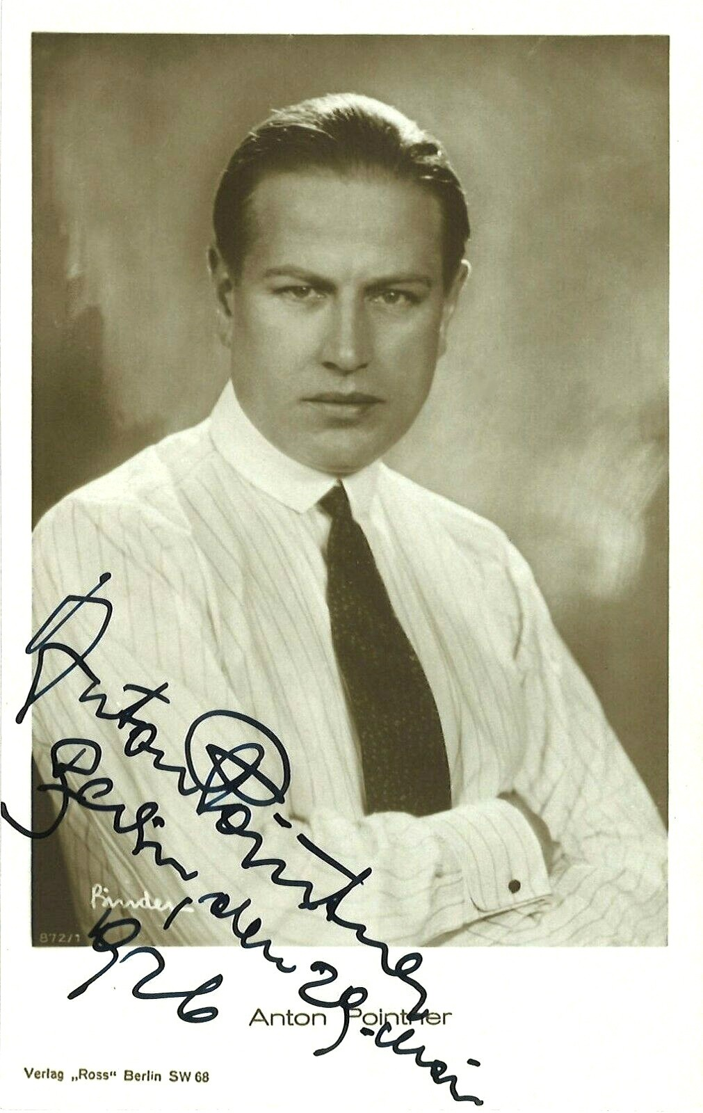 Autographed portrait postcard of Austrian actor Anton Pointner (8 December 1894 – 8 September 1949) by Alexander Binder.